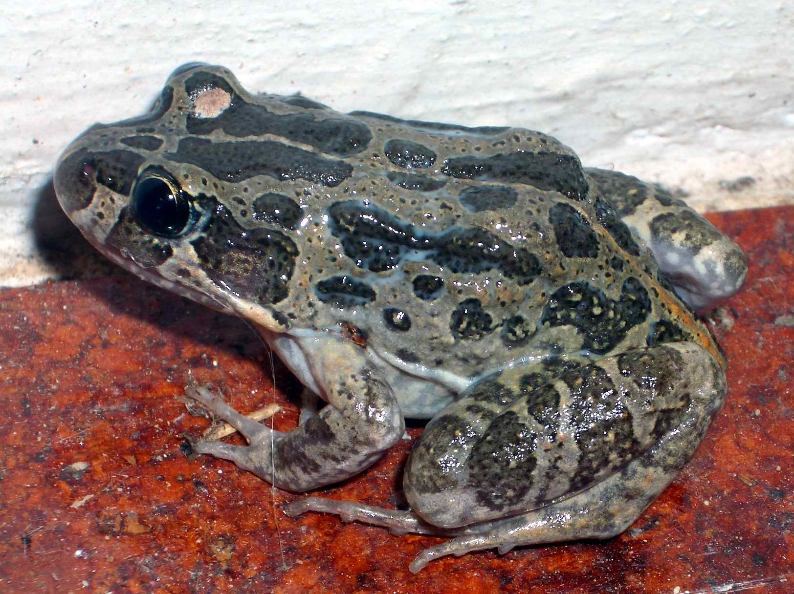 I took this photo myself in my home to the west of Cooktown, Australia.